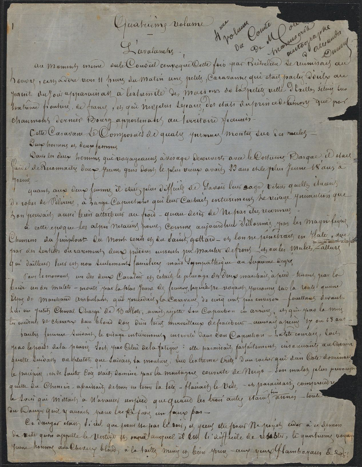 Page 1 of the original manuscript of Le comte de Moret, ca. 1869, by Alexandre Dumas (1802-1870). In French. MS Fr 133.1, Houghton Library, Harvard University